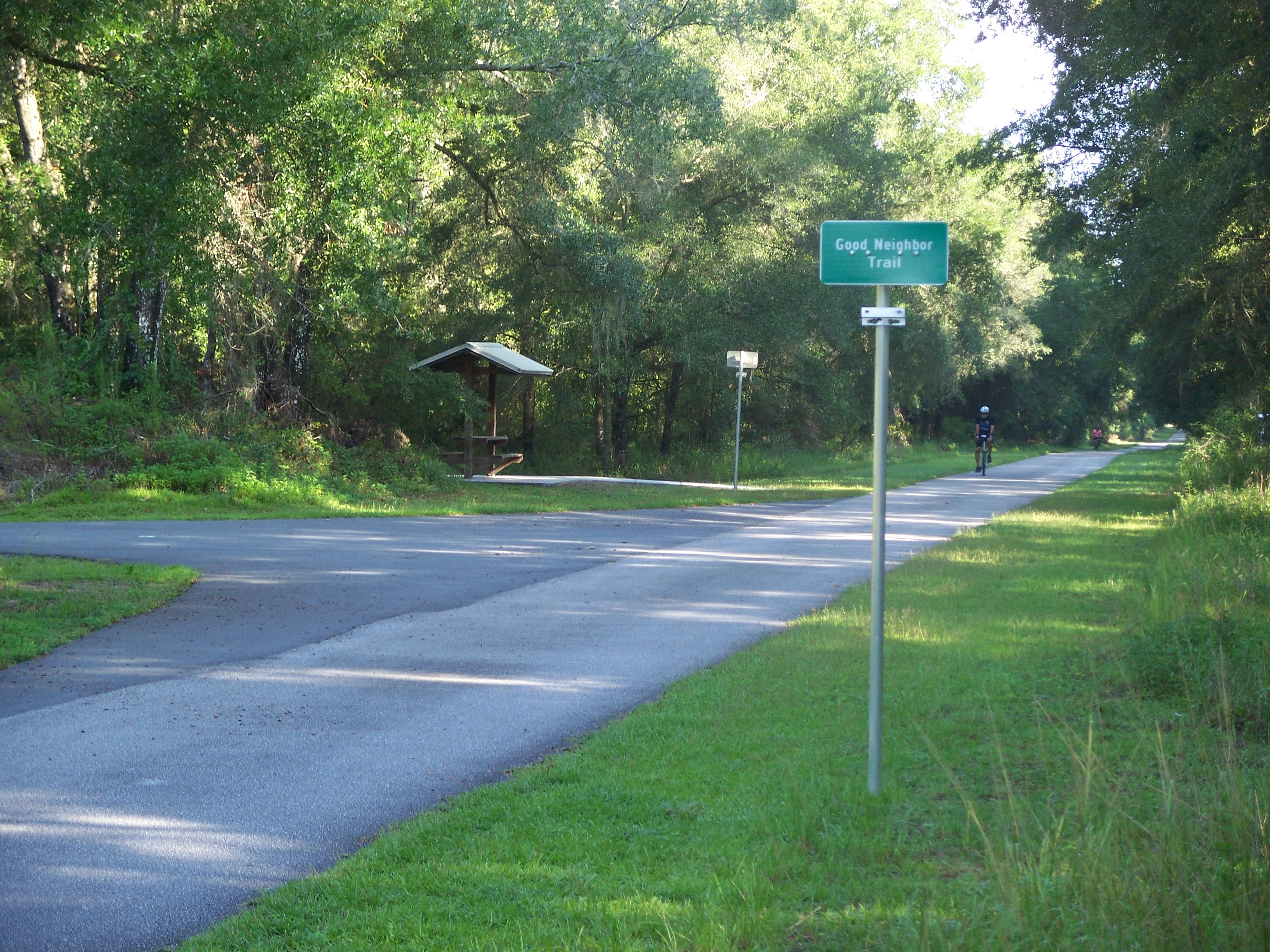 This is the easternmost point on the Good Neighbor Trail, where it makes a tee intersection with the Withlacoochee State Trail. The view is to the northwest showing the Withlacoochee State Trail and a small bit of the Good Neighbor Trail to the left where it terminates at its intersection with the Withlacoochee State Trail at location 28°35'22.2"N 82°13'42.3"W